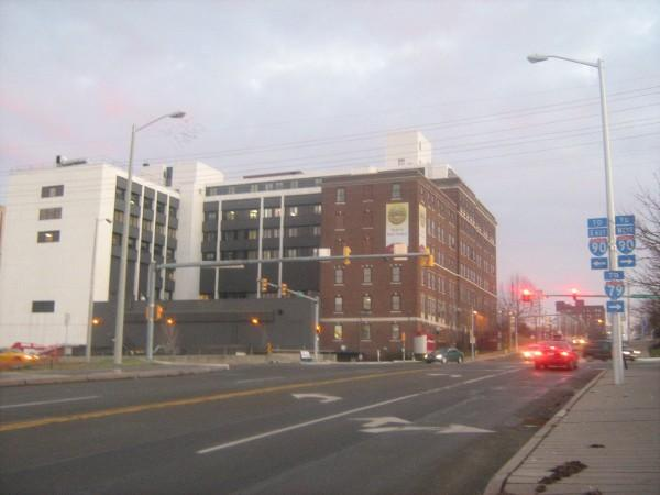 Hamot Hospital from State & Bayfront Pky.